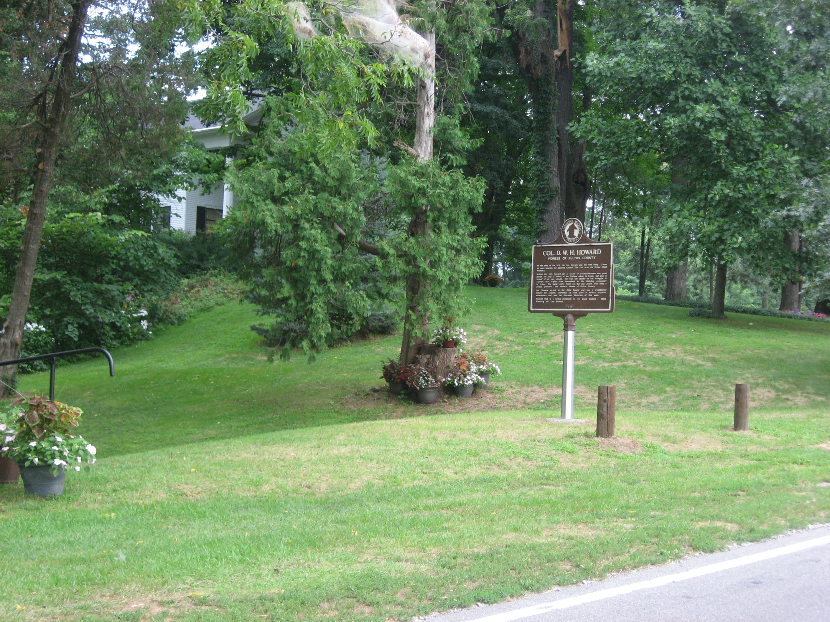 One of the Winameg Mounds, located along County Road 11-2 in Winameg, Ohio, United States. Built by Hopewellian peoples, the mounds are listed on the National Register of Historic Places.